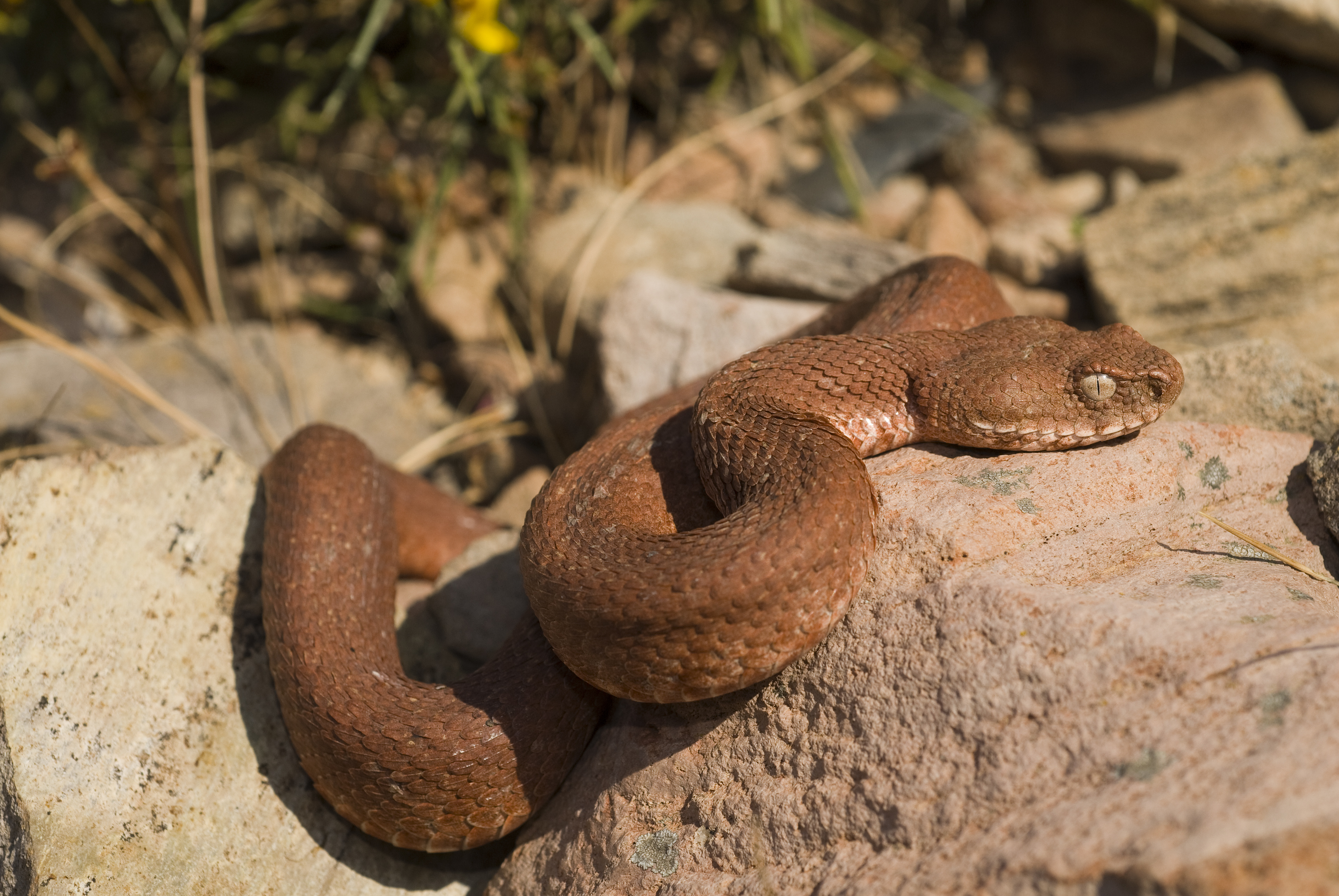 Macrovipera schweizeri red morph